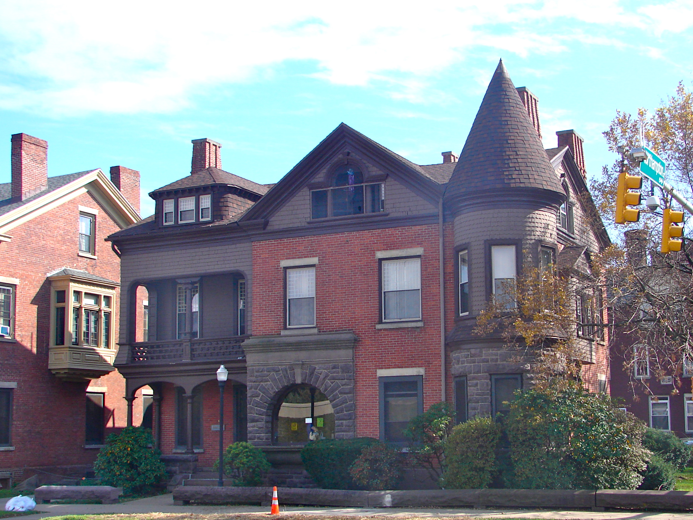 Weiss Hall — at 98 South River Street, Wilkes-Barre, Luzerne County, Pennsylvania. On the NRHP since November 27, 1972.